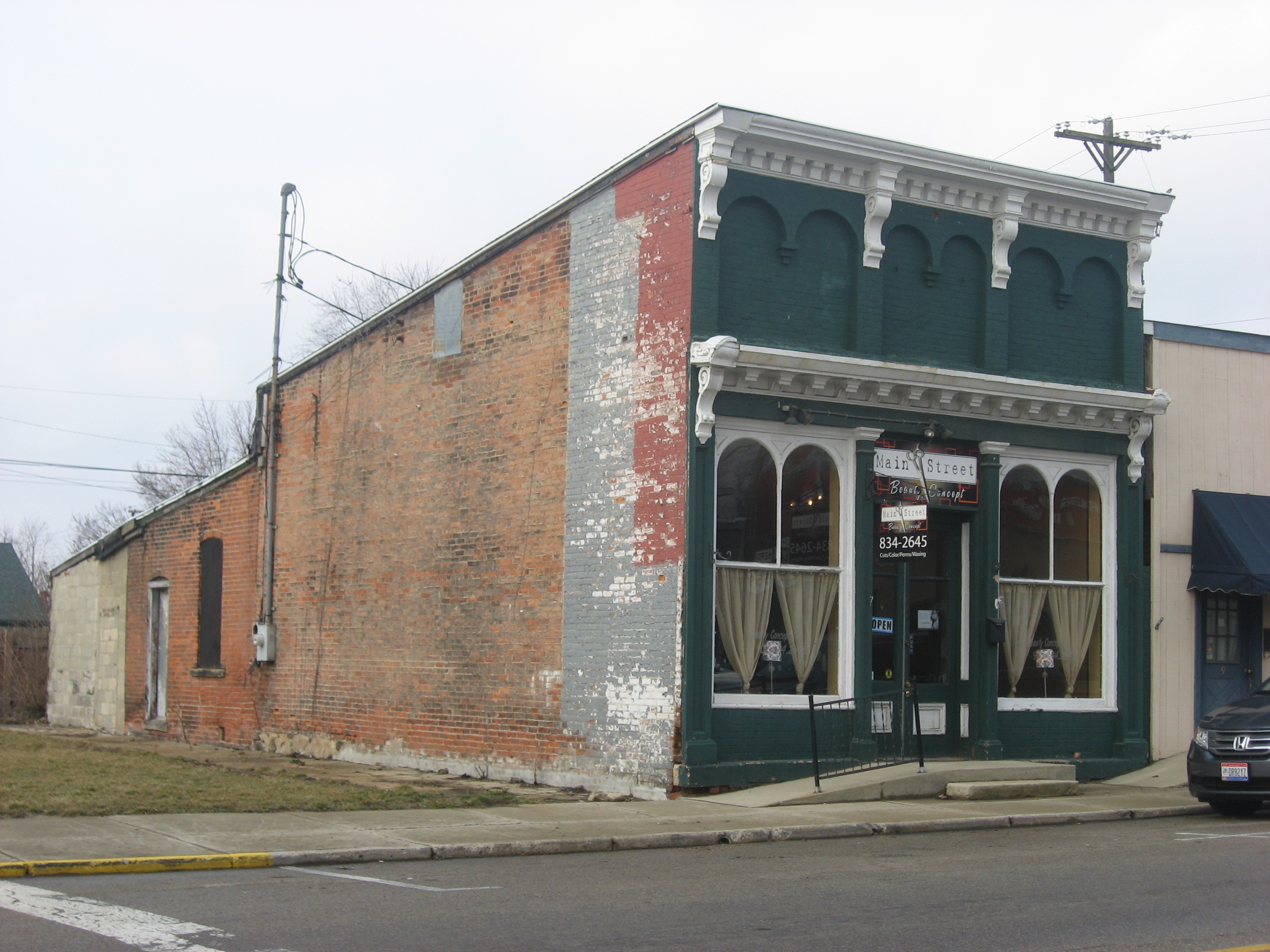 Front and southern side of the Village Hobby Shop, located at 7 N. Main Street (State Route 29) in Mechanicsburg, Ohio, United States. Built in 1880, it is listed on the National Register of Historic Places.